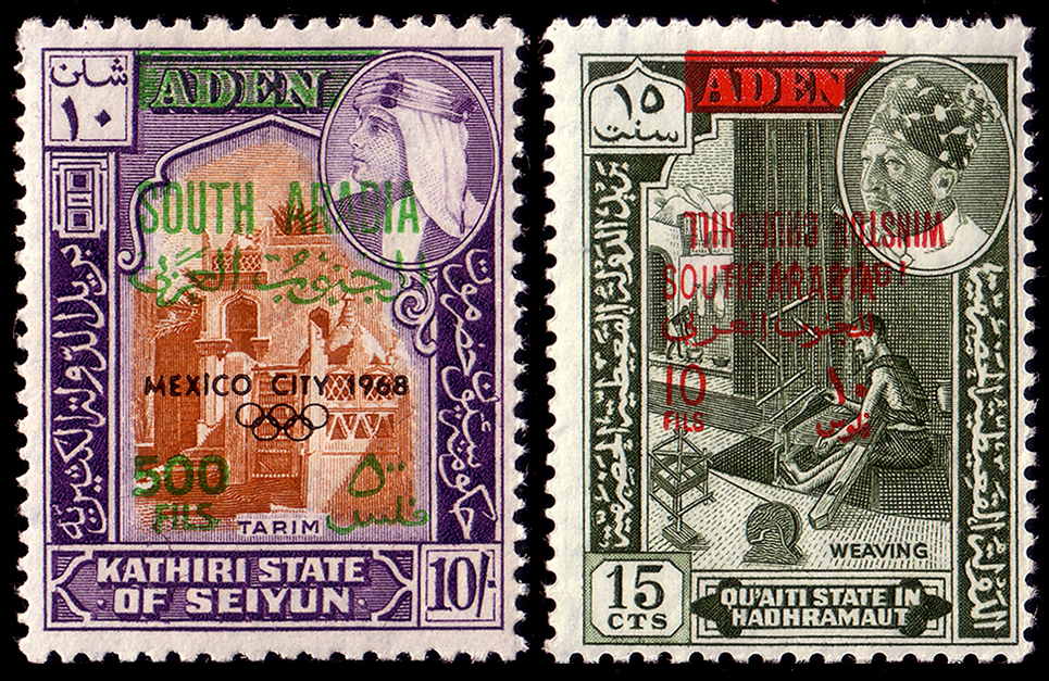 Postage stamps of Kathiri State and Qu'aiti State in Hadhramaut (South Yemen), overprints, 1968